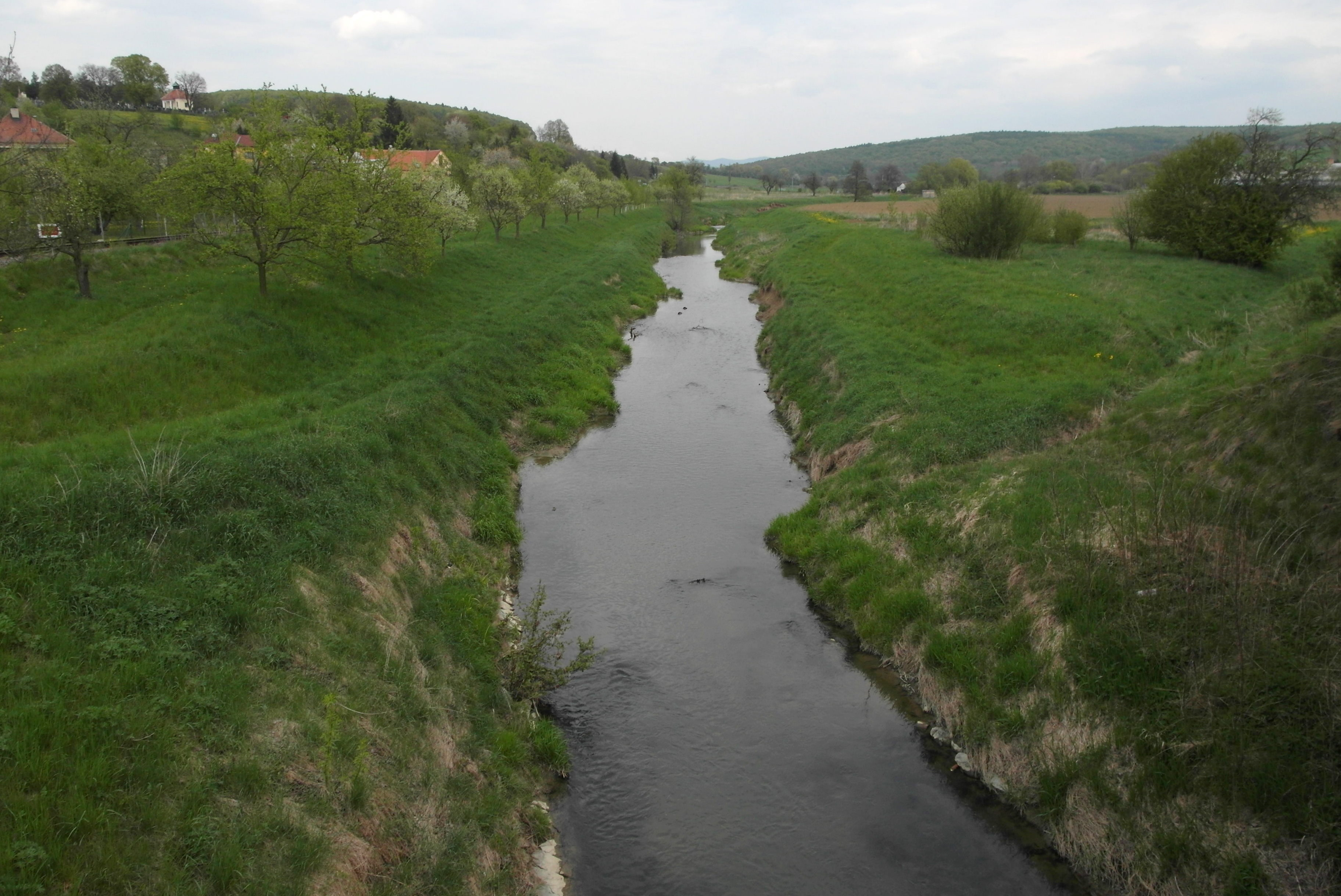 Stavnice river right before confluence into Olsava river, Czech Republic